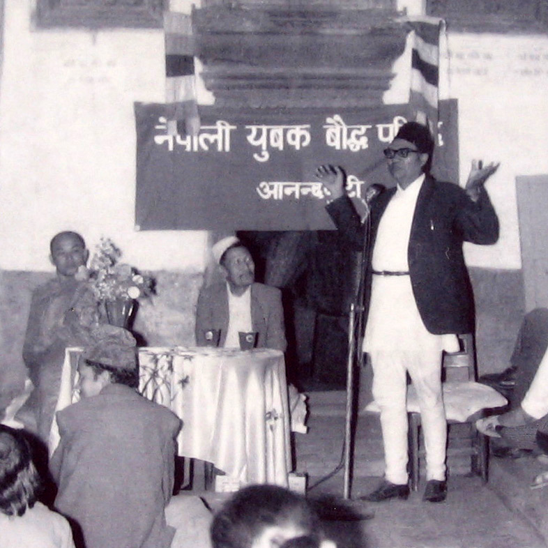 Nepalese politician and freedom fighter Dharma Ratna Yami (1915-1975) speaking at a meeting of the Nepali Young Buddhist Council in Kathmandu in ca 1965.